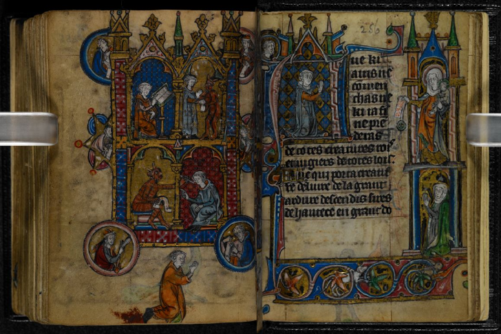 Two adjacent folios (pages) of the Maastricht Book of Hours (BL Stowe MS17), an illuminated manuscript mainly known for its lively depictions of animals and half-animals. The book of hours was probably made for an aristocratic lady in the Liège-Maastricht area in the first quarter of the 14th century. In the 18th century it was owned by the 1st Duke of Buckingham and Chandos, who in 1849 sold it to Lord Ashburham. In 1883 it was purchased by the British Library as part of the Stowe collection. Folios f255v-f157r constitute the prayers in French. This section begins with a full-page miniature on the left (f255v). It depicts scenes from the life of Theophilus of Adana (who made a pact with the devil). The medallions show men with scrolls (prophets? evangelists?). At the bottom is a men on his knees. The initial on the right hand page (f140r) shows Theophilus on his knees, pleading with the Virgin Mary to forgive him. At the bottom of the recto page is a decorated border with floral motives supporting an architectural structure with the Madonna and Child above and a kneeling woman below (perhaps the owner of the prayer book).